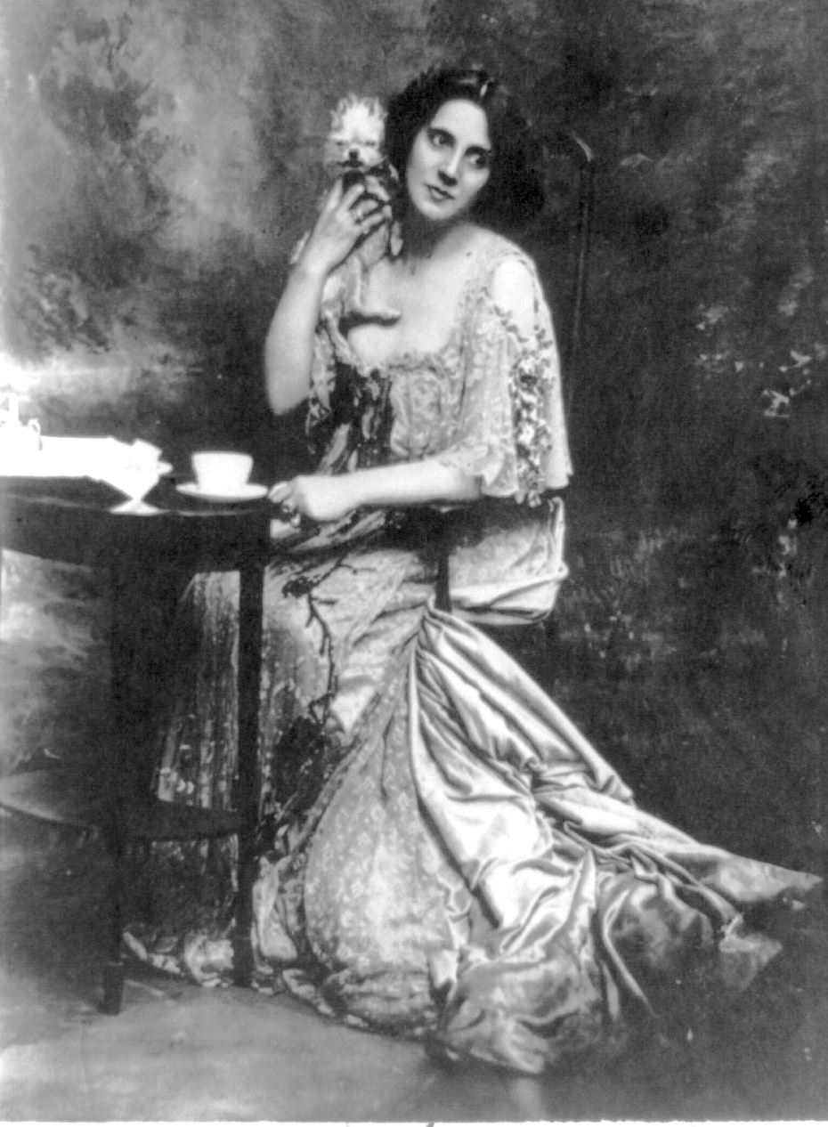 Mrs. Patrick Campbell, actress, full-length portrait, seated at small table, facing slightly right, holding pet dog